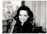 French writer Marie-Odile Beauvai